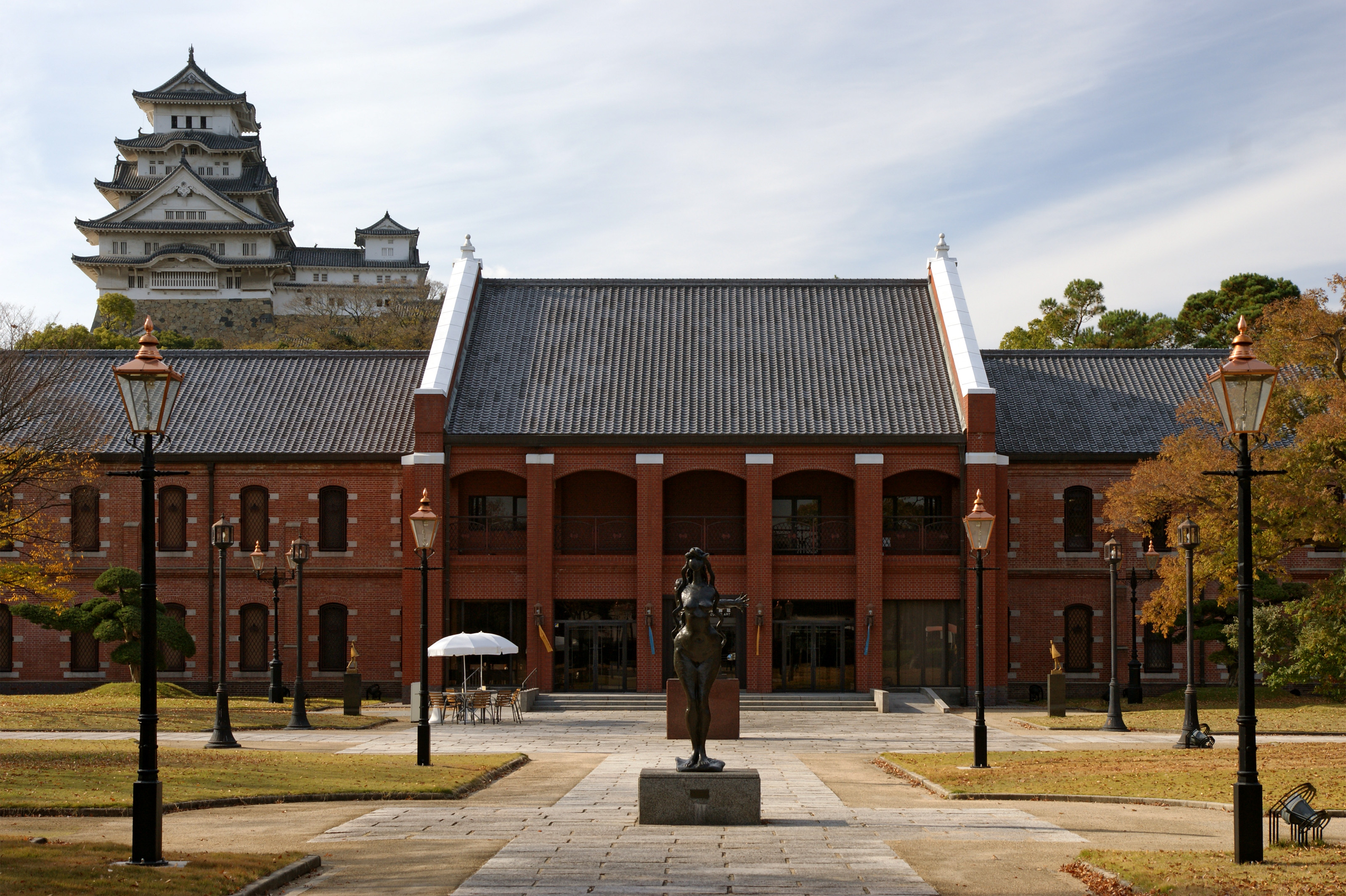 Himeji City Museum of Art in Himeji, Hyogo prefecture, Japan